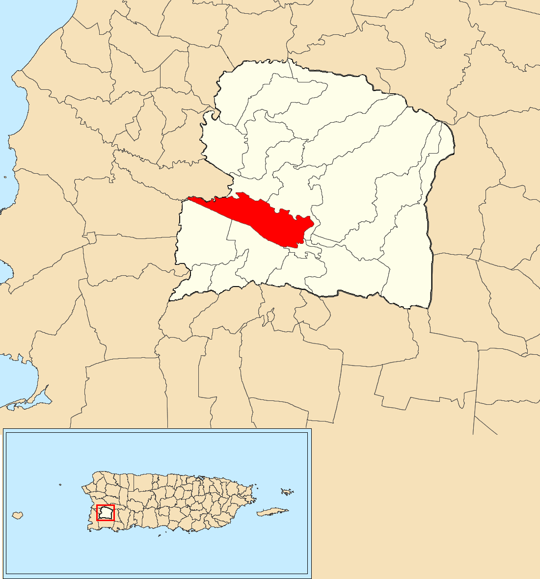 Sabana Grande Abajo, San Germán, Puerto Rico locator map